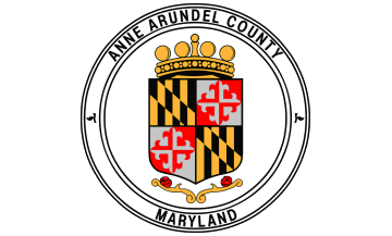 The former flag of Anne Arundel County, Maryland, as it was in 1996.